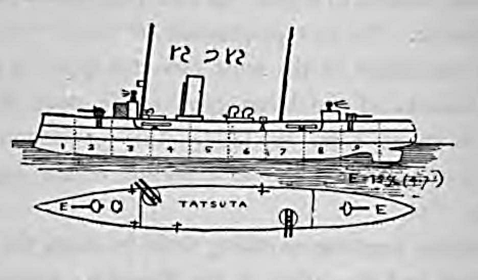 Armament plan of Japanese gunboat "Tatsuta"